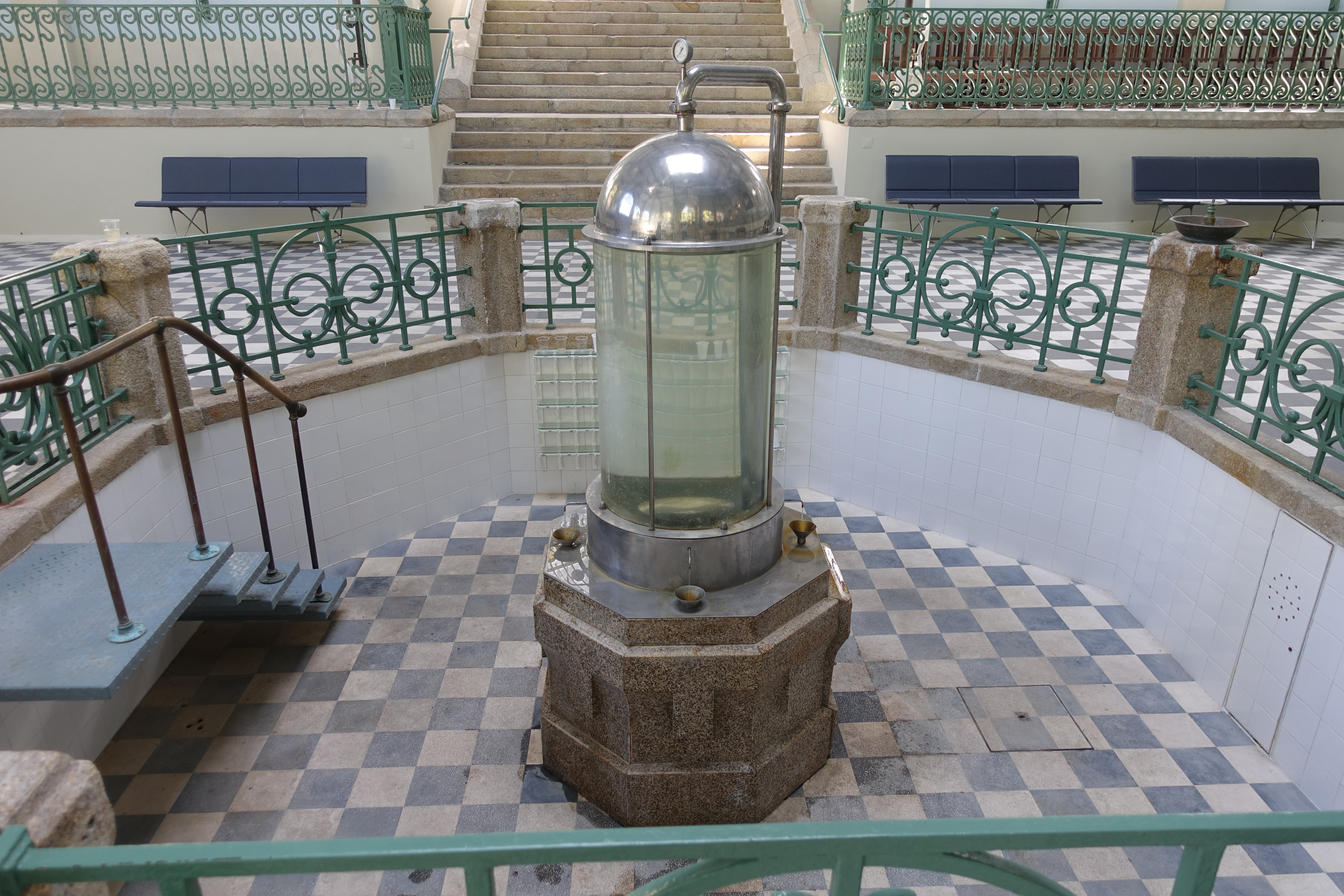 Fonte Principal das Termas de Melgaço, Portugal.